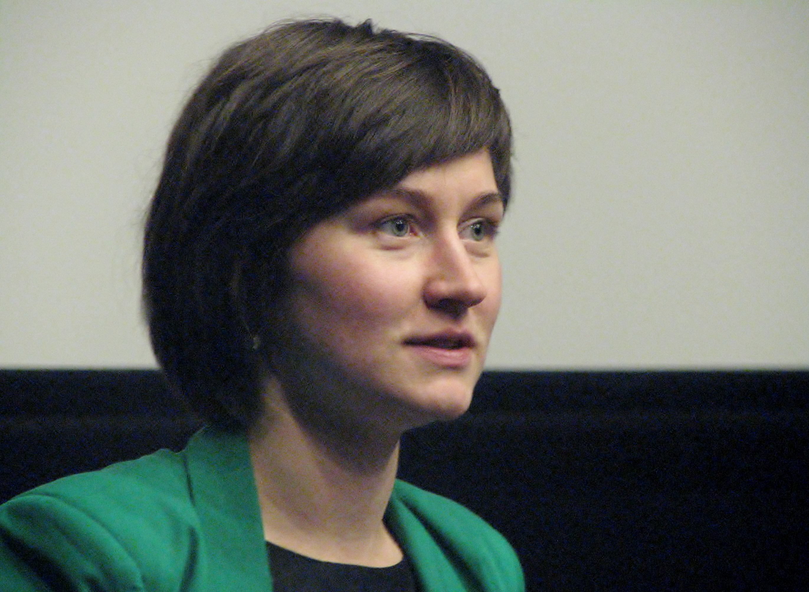 Katrin Maimik performing during 16th Tallinn Black Nights Film Festival